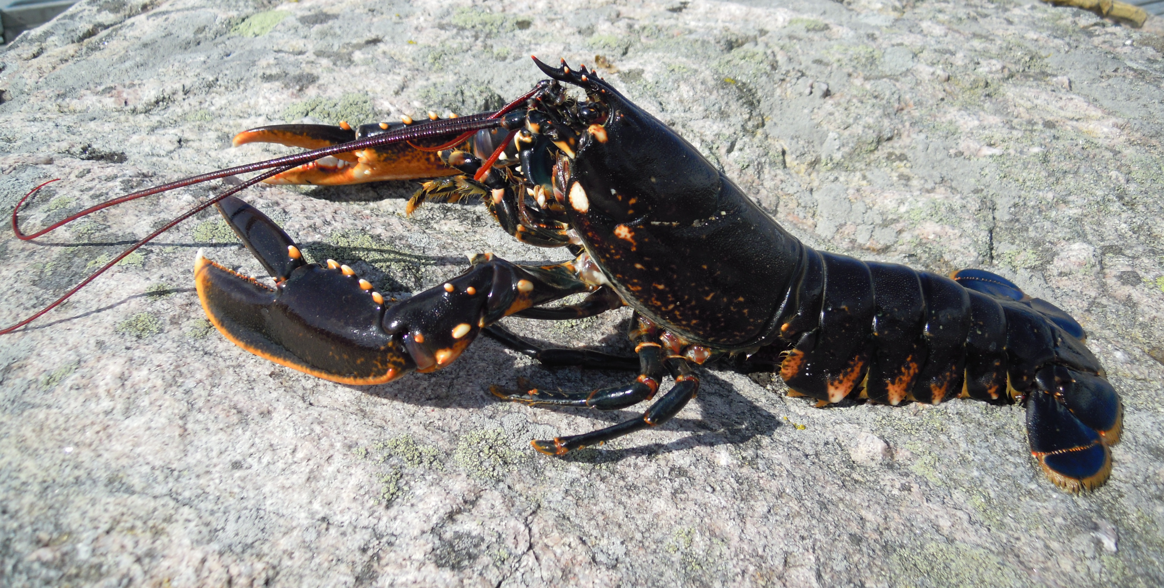 Homarus gammarus, known as the European lobster or common lobster. Mandal, Norway